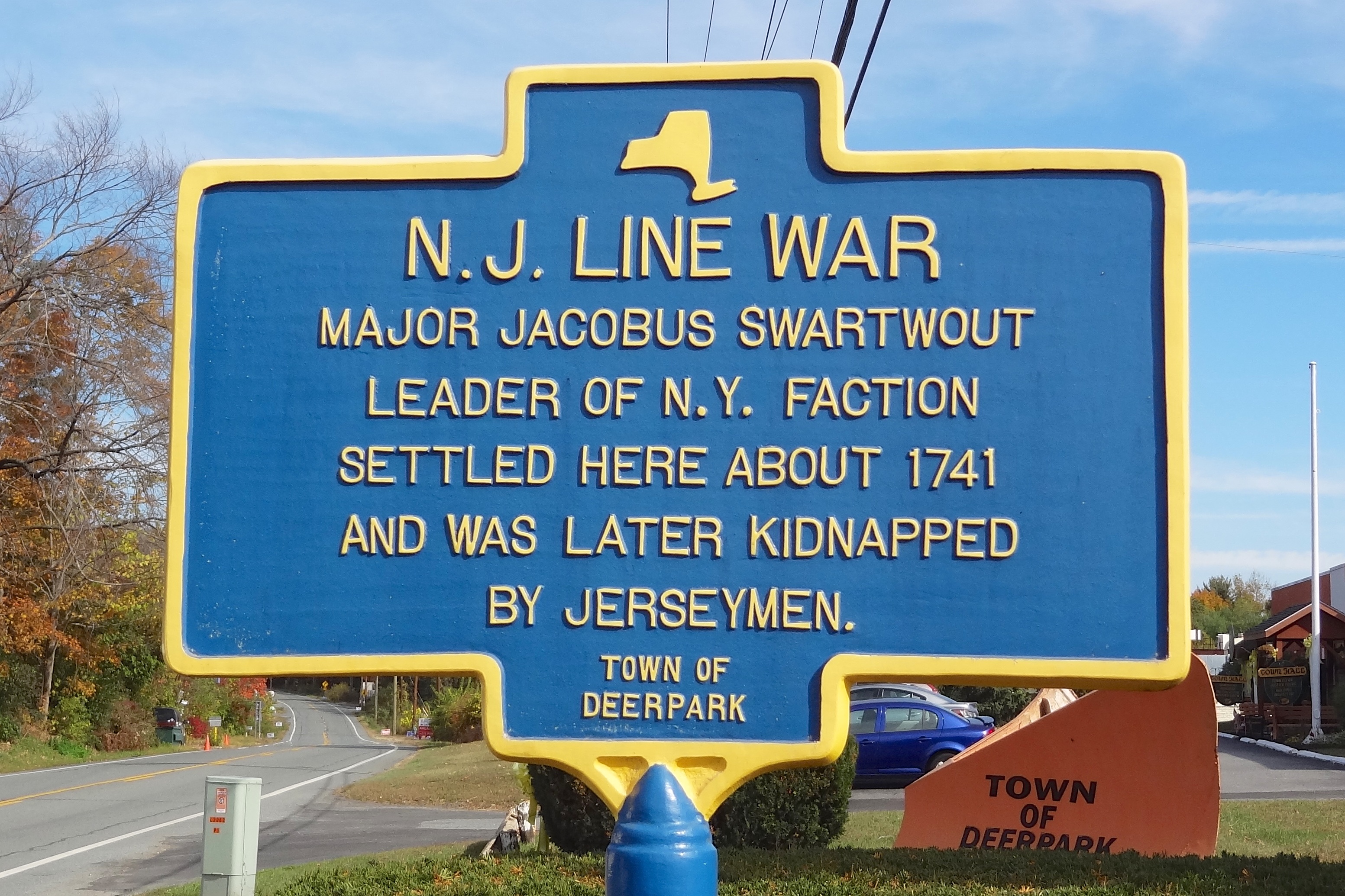 New York State Historic Marker along US 209 in Orange County, New York about the N. J. Line War and Major Jacobus Swartwout.